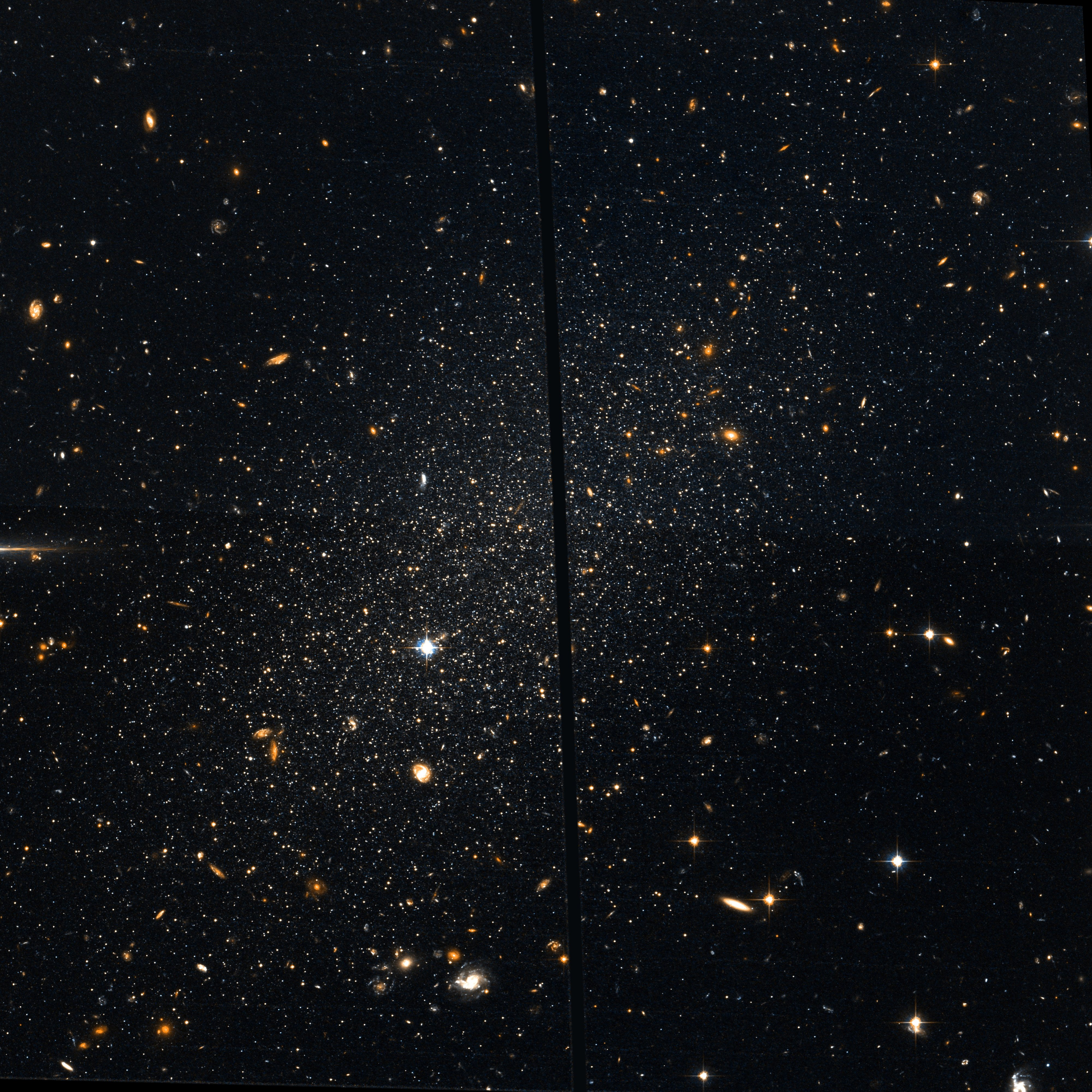 Tucana Dwarf galaxy by Hubble space telescope